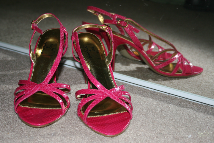 Happiness is...